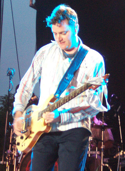 Kevin Hearn performing with Barenaked Ladies in Guelph, Ontario Canada at the Hillside Festival on July 24, 2003